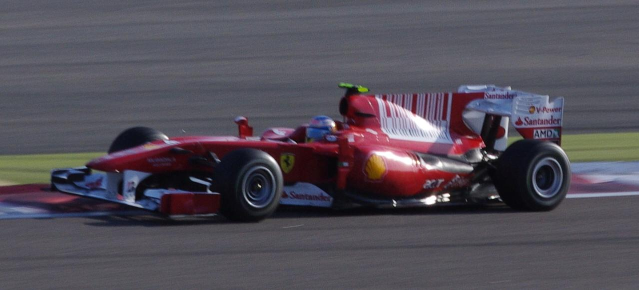 Fernando Alonso driving for Scuderia Ferrari at the 2010 Bahrain Grand Prix.